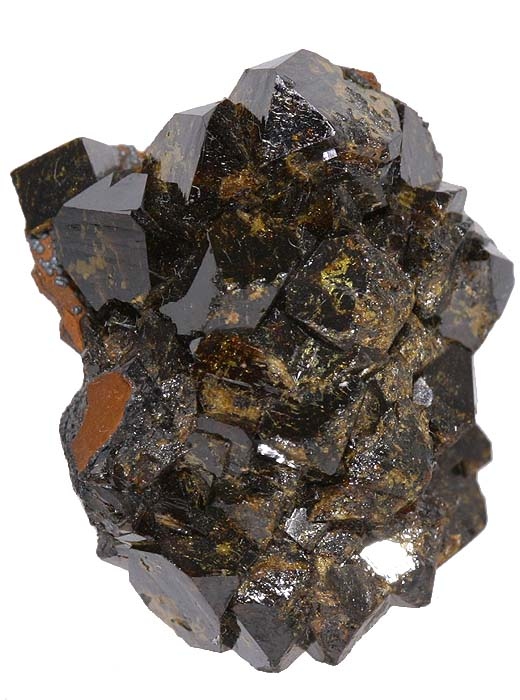 Beudantite Locality: Tsumeb, Otjikoto (Oshikoto) Region, Namibia (Locality at ) Size: thumbnail, 2 x 2 x 1 cm Beudantite Realtively large, lustrous, colorful brown crystals of the rar emineral Beudantite to 7mm make this a world class thumbnail for the species!